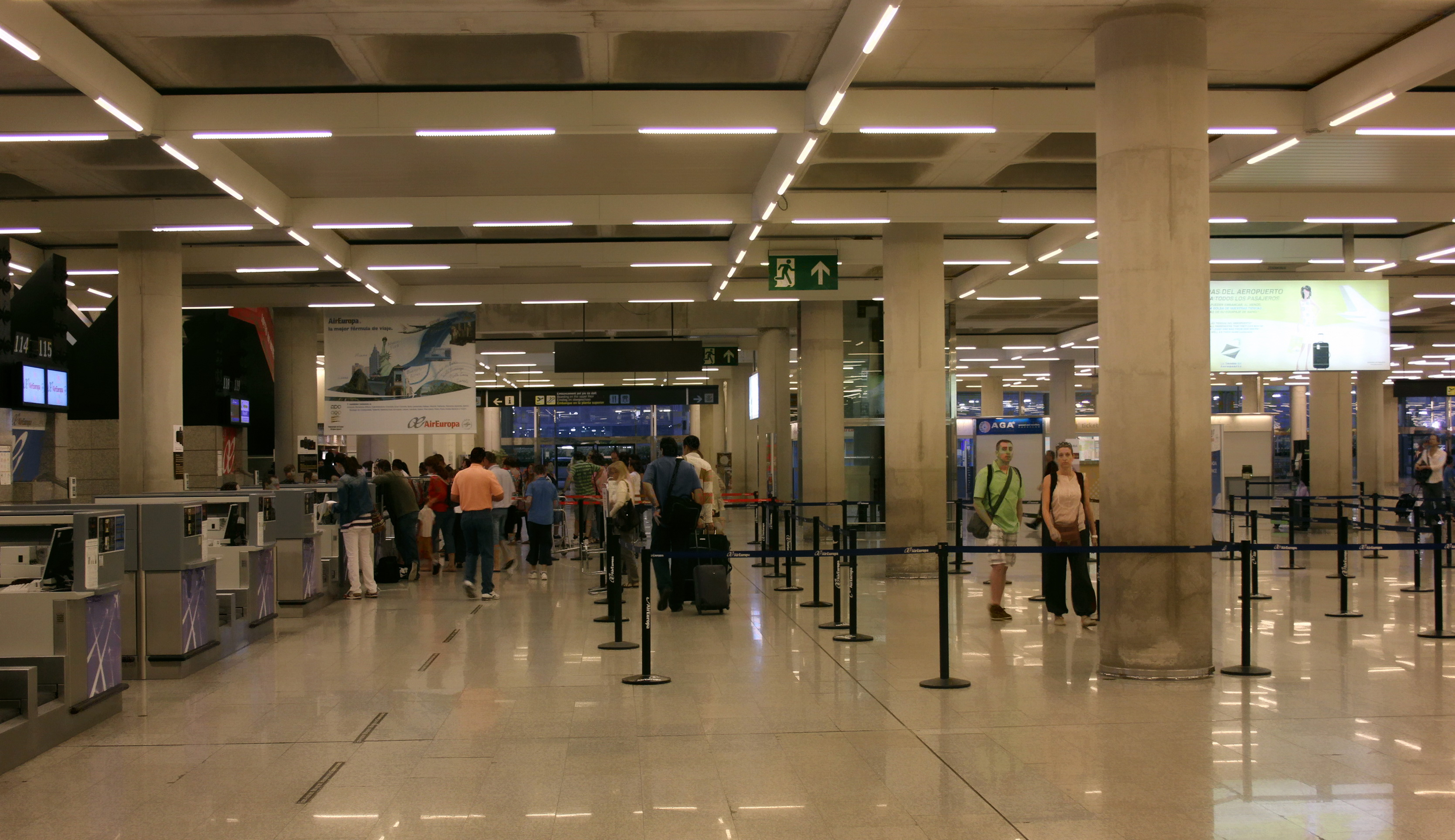 Air Europa check-in at the Palma de Mallorca airport.